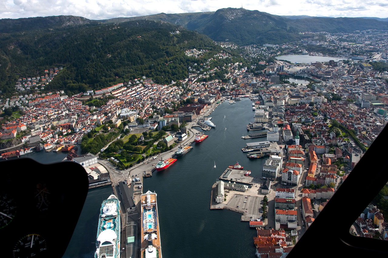 View of Bergen from the air (chopper) in August 2009.